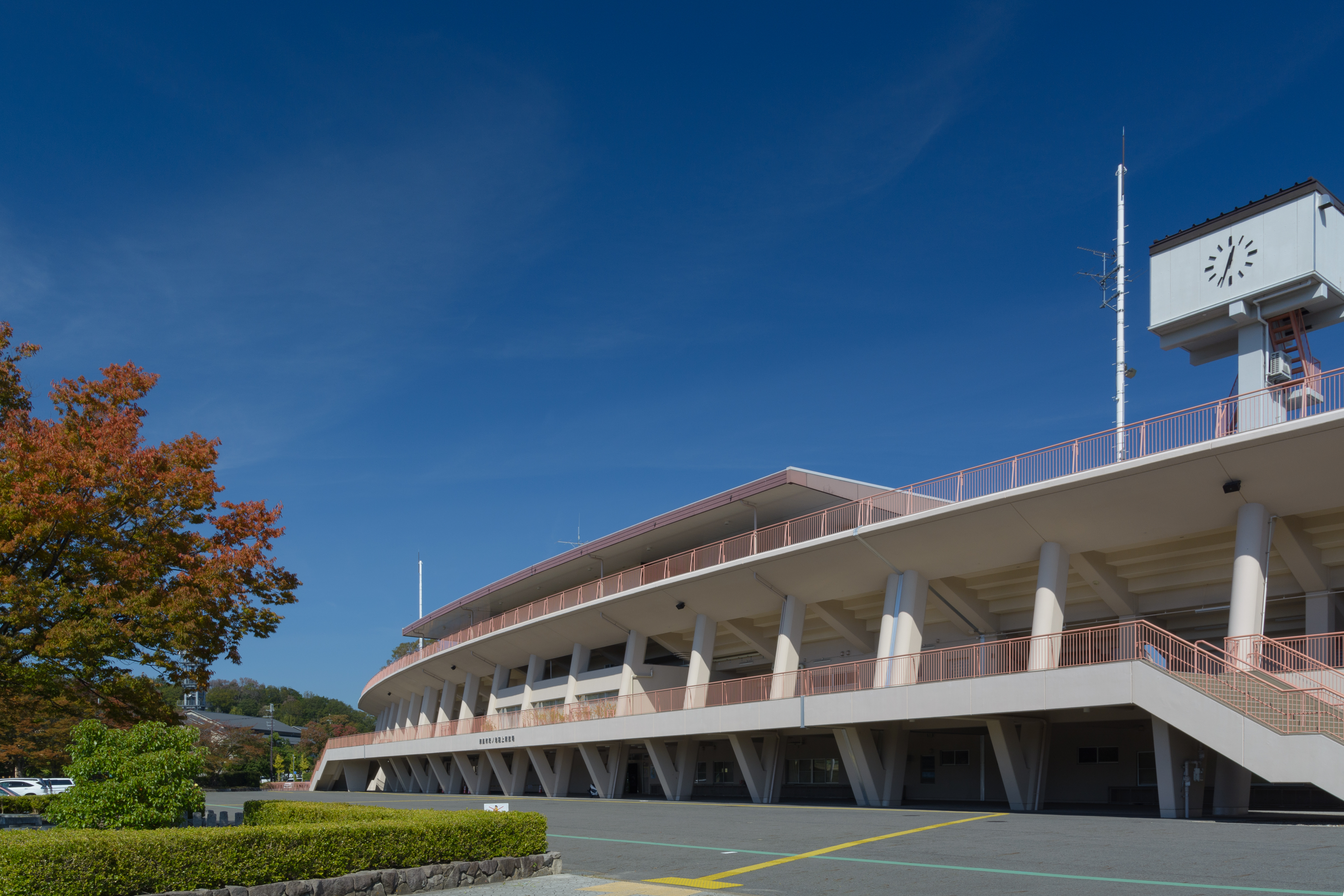 Kōnoike Athletic Stadium, Nara, Nara prefecture